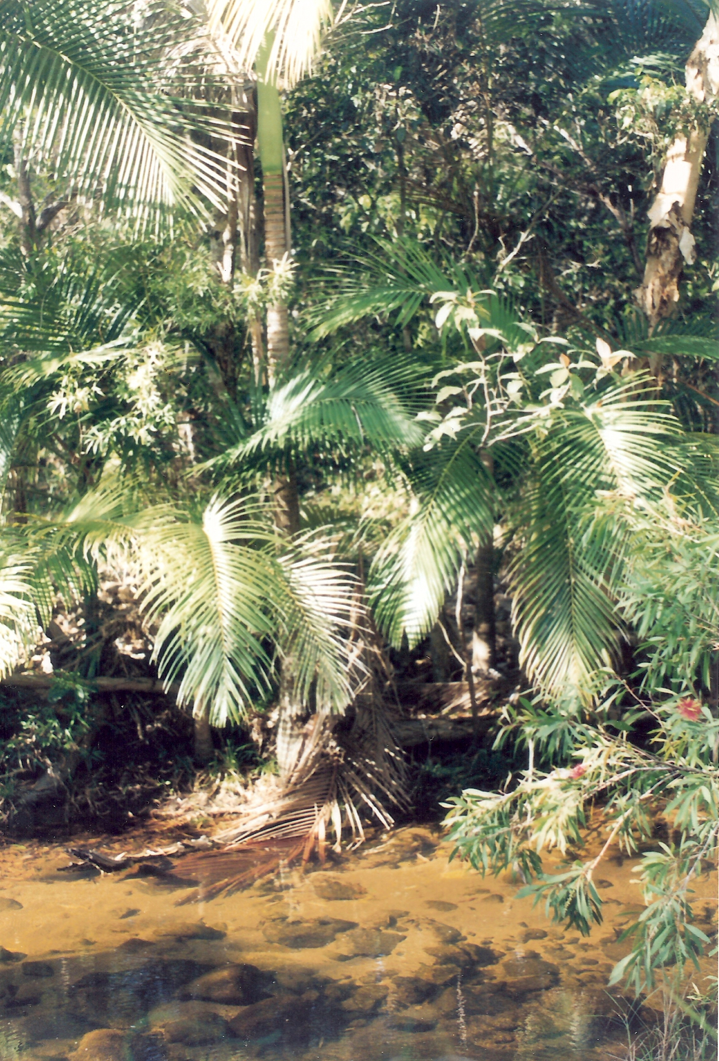 Scan of photo of Alligator Creek, North Queensland, Australia.